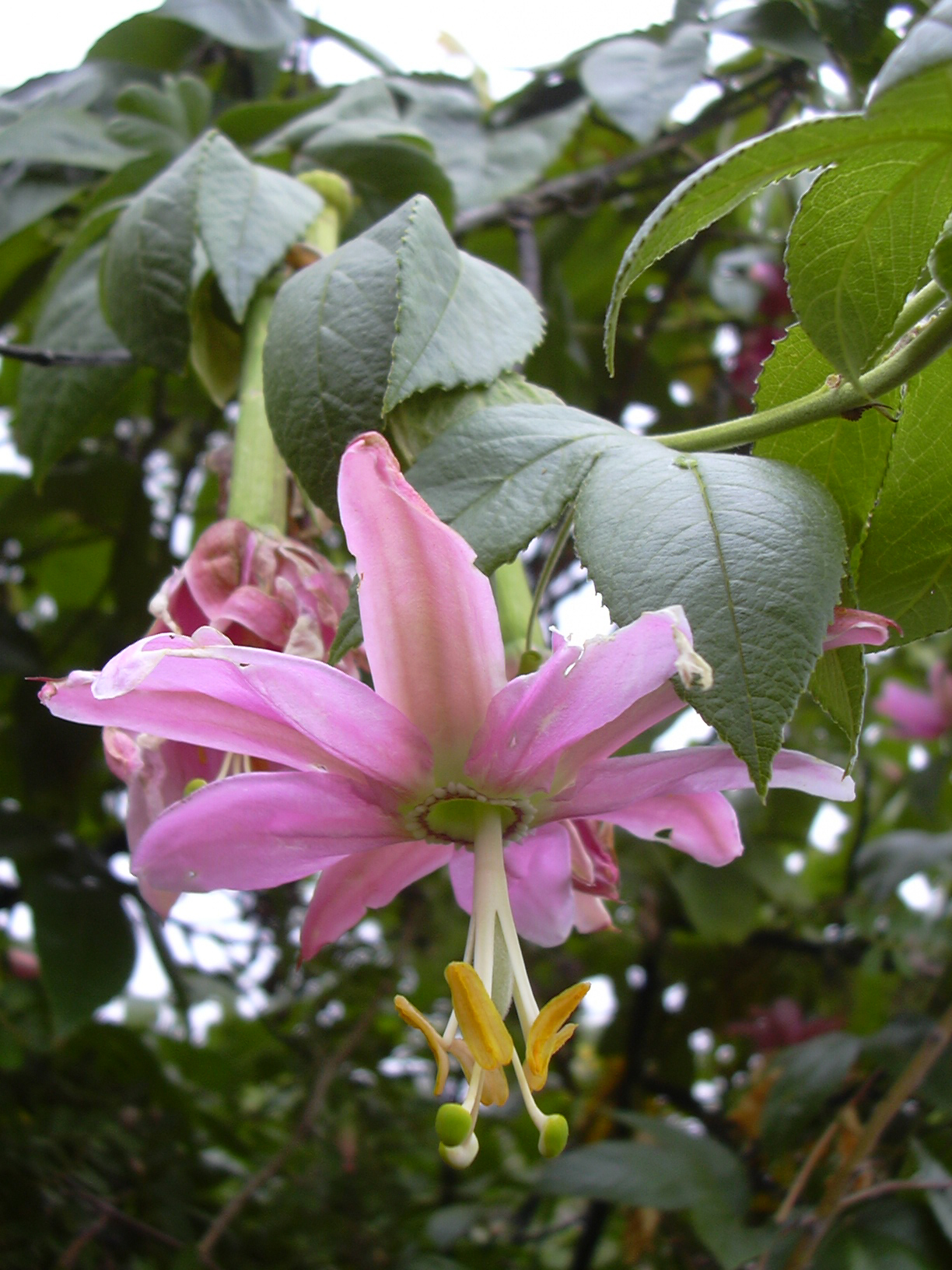 Passiflora tarminiana (flower). Location: Hawaii, Puu Kole